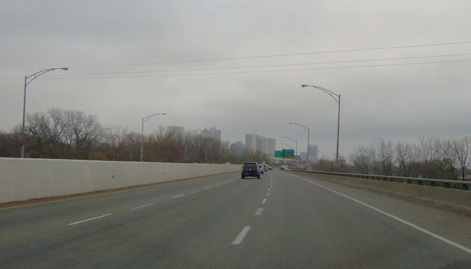 Southbound State Route 315 in Columbus. Self made photo.